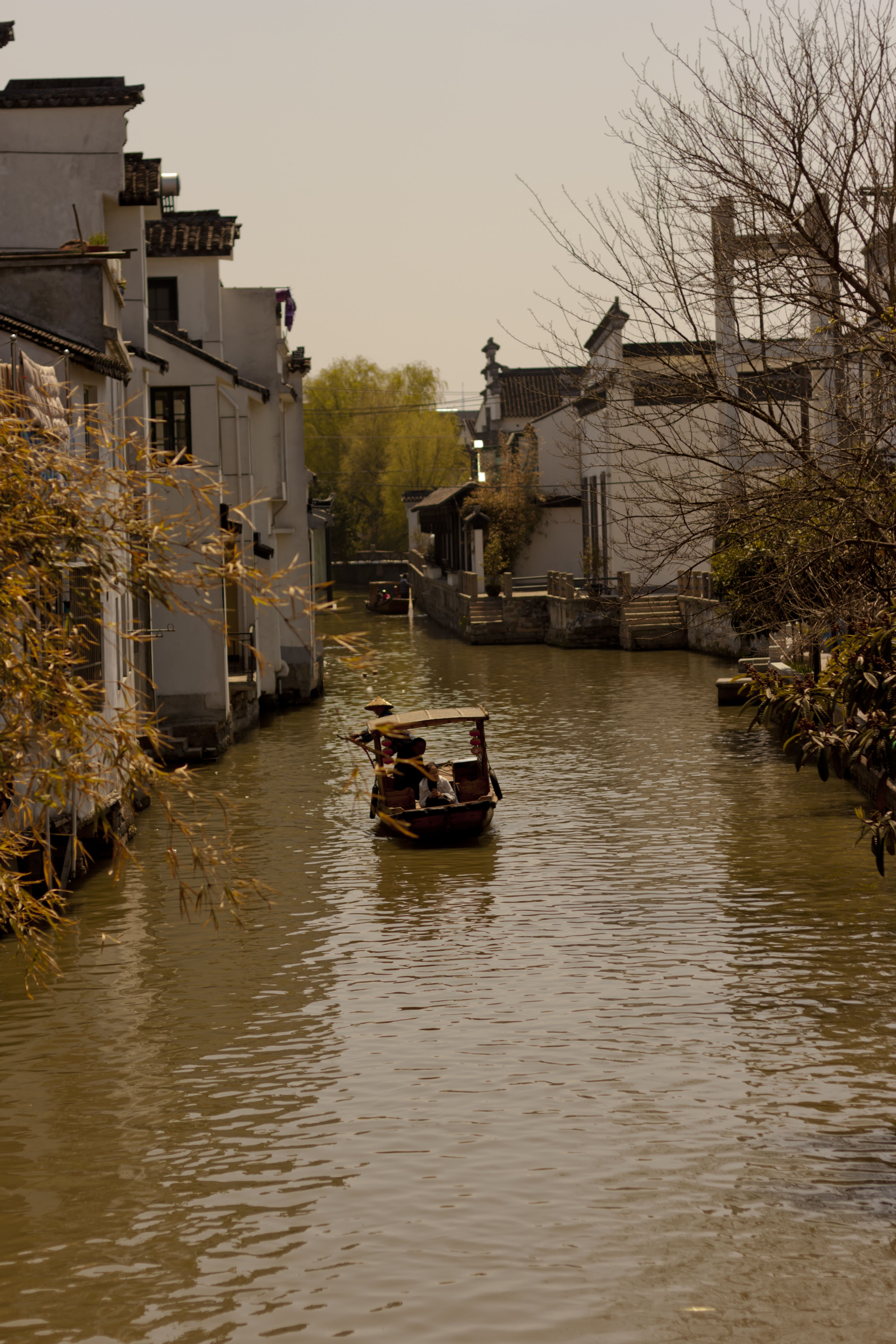 Suzhou downtown, near Zhuozheng Garden